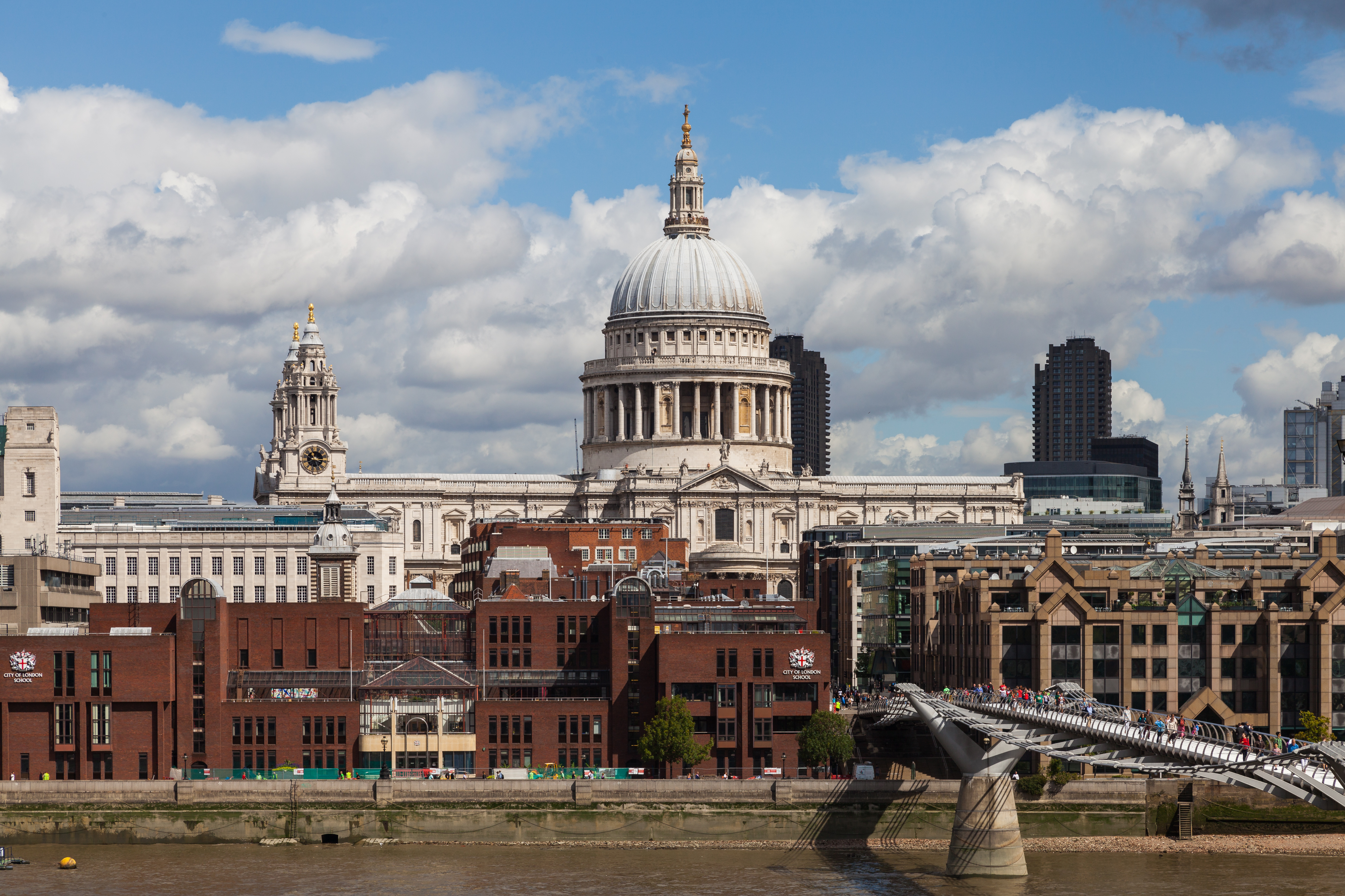 St Paul's Cathedral, London, England